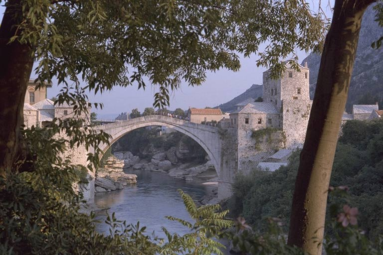 Original Mostar bridge, exact year is 1976. As heirs to the photographer we grant permission to copy, distribute and/or modify this document under the terms of the GNU Free Documentation License Version 1.2 or any later version published by the Free Software Foundation; with no Invariant Sections, no Front-Cover Texts, and no Back-Cover Texts. A copy of the license is included in the section entitled "GNU Free Documentation License".